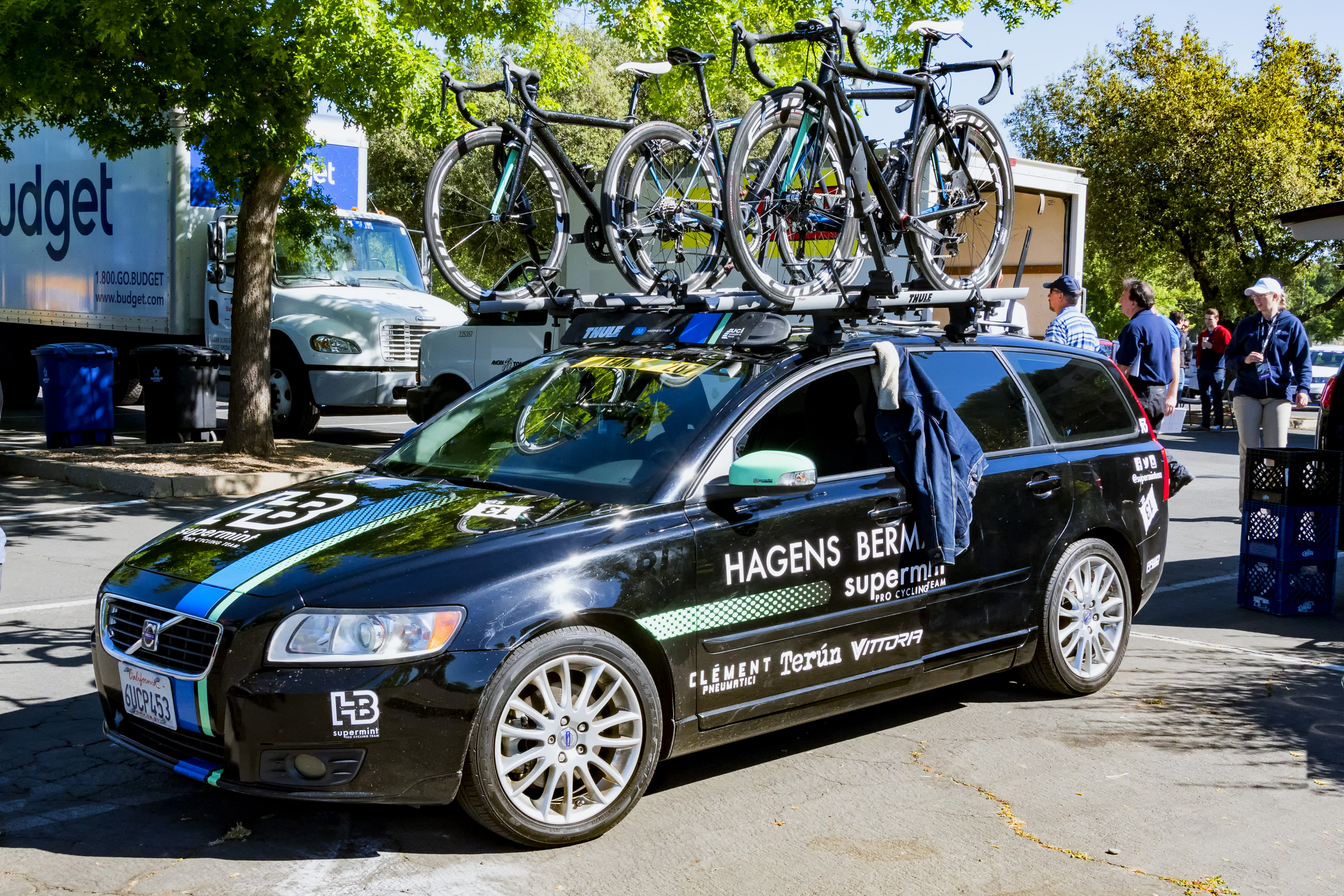 The 2017 Amgen Breaking Away from Heart Disease UCI women's World Cup race.